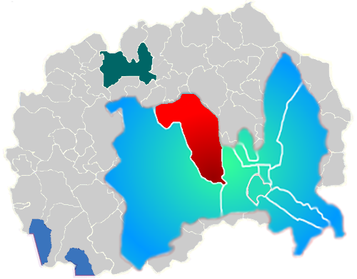 Map of GorÄ e Petrov municipality.